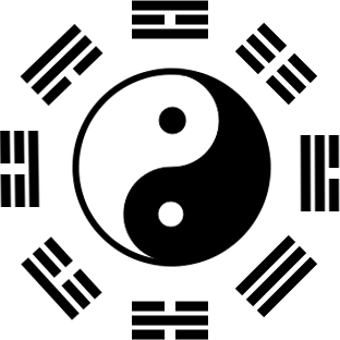 Le Ba Gua 八卦 signifie les huit trigrammes.